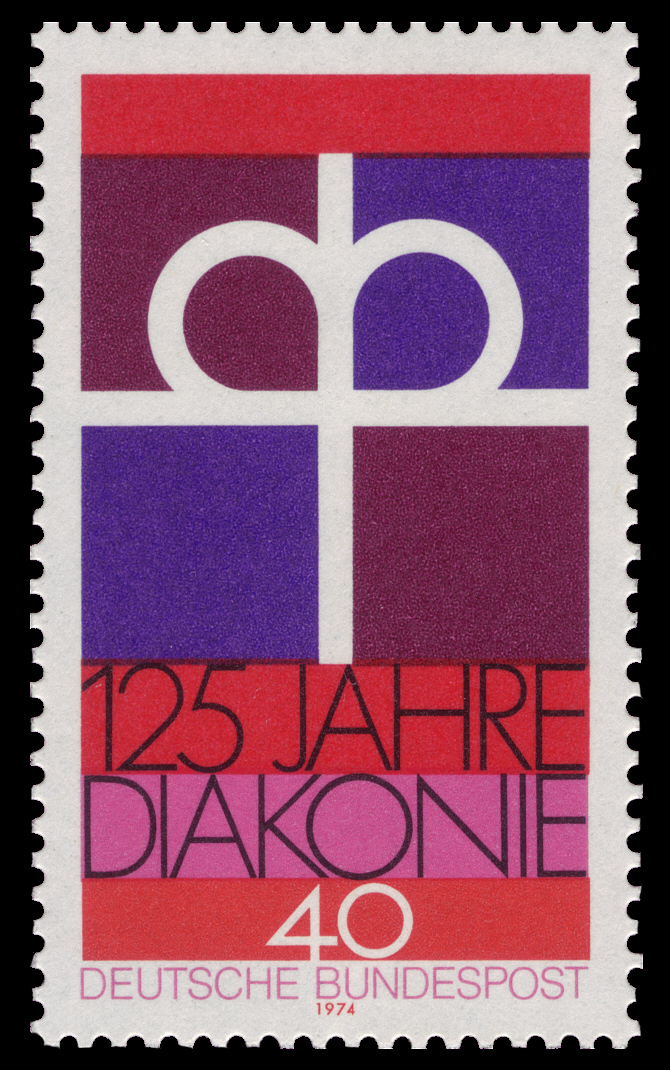 25 years of Diakonie Graphics by Rolf Lederbogen Ausgabepreis: 40 Pfennig First Day of Issue / Erstausgabetag: 15. Mai 1974 Michel-Katalog-Nr: 810